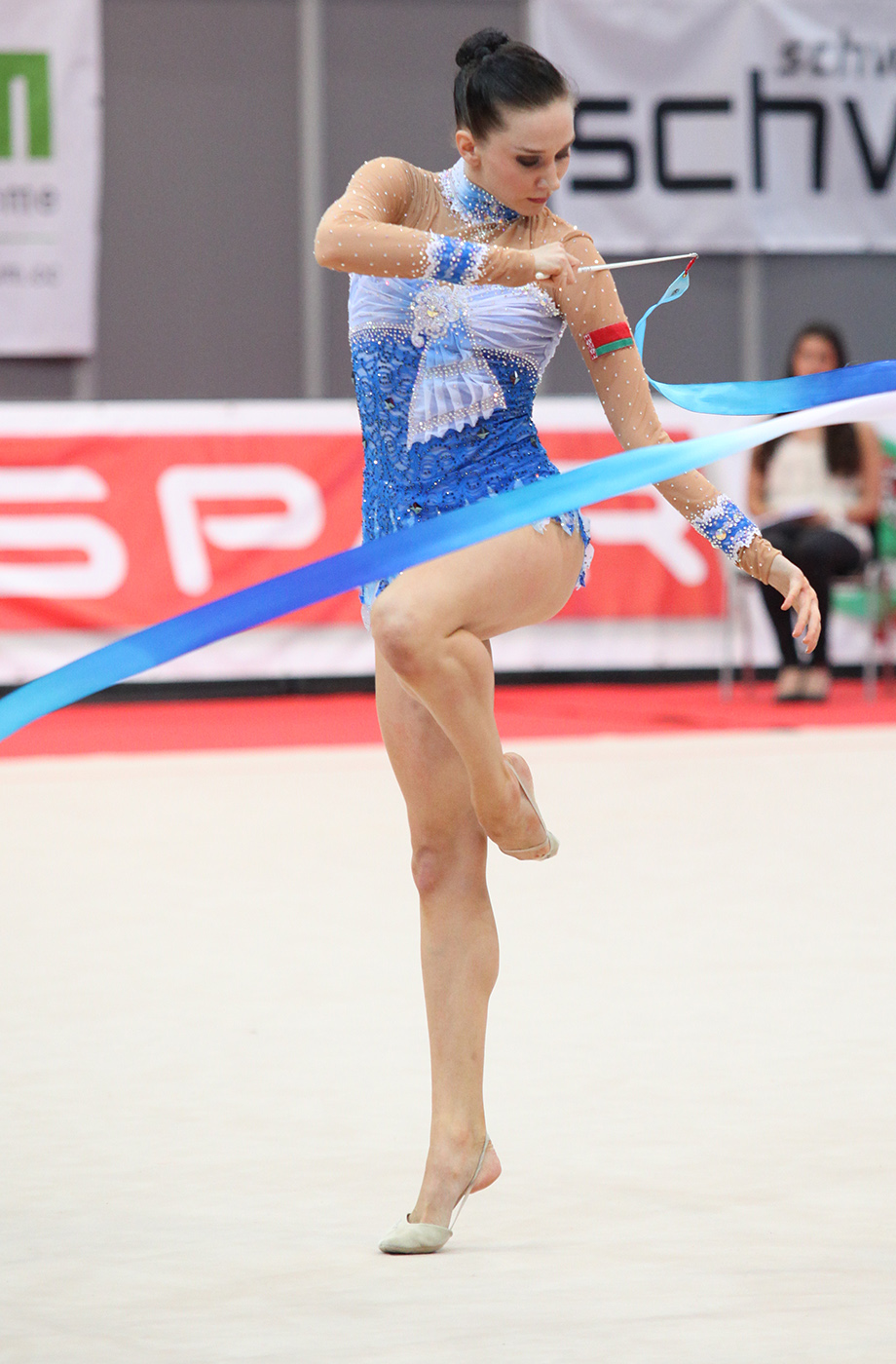 Liubov Charkashyna (b. 1987), Belarusian individual rhythmic gymnast at Grand Prix Rhythmic Gymnastics in Austria (Hard) 2012.